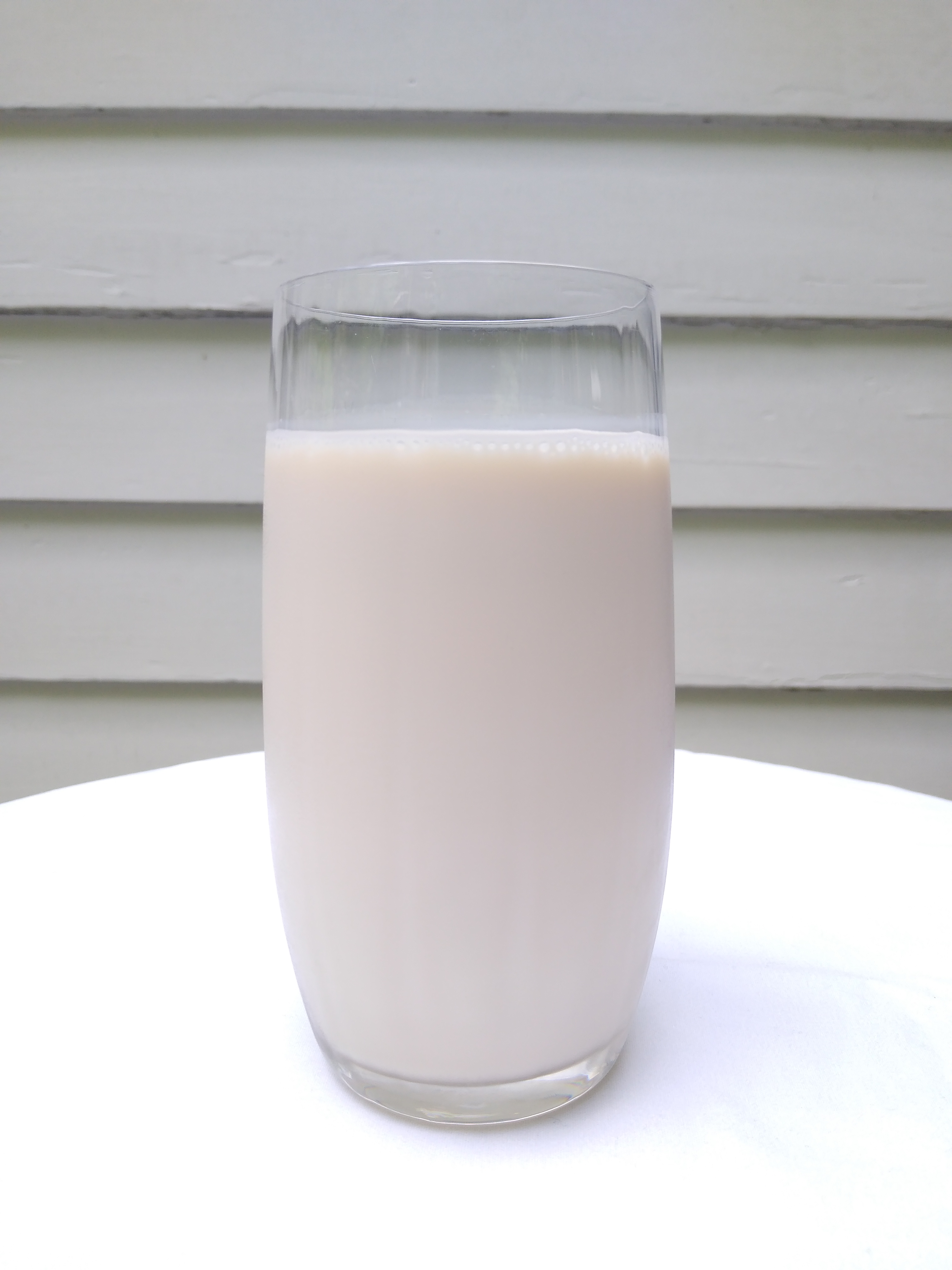 Ripple "Original Nutritious Plant-based Milk", made with pea protein.